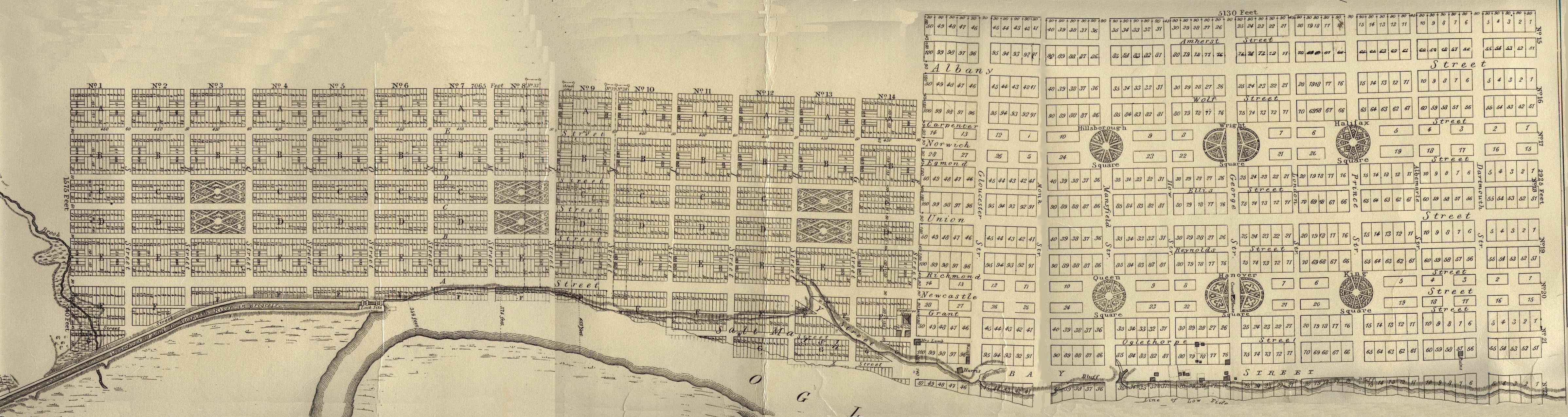 This map shows the City of Brunswick in 1837.